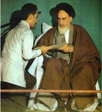 President Rajaei receiving his presidential precept